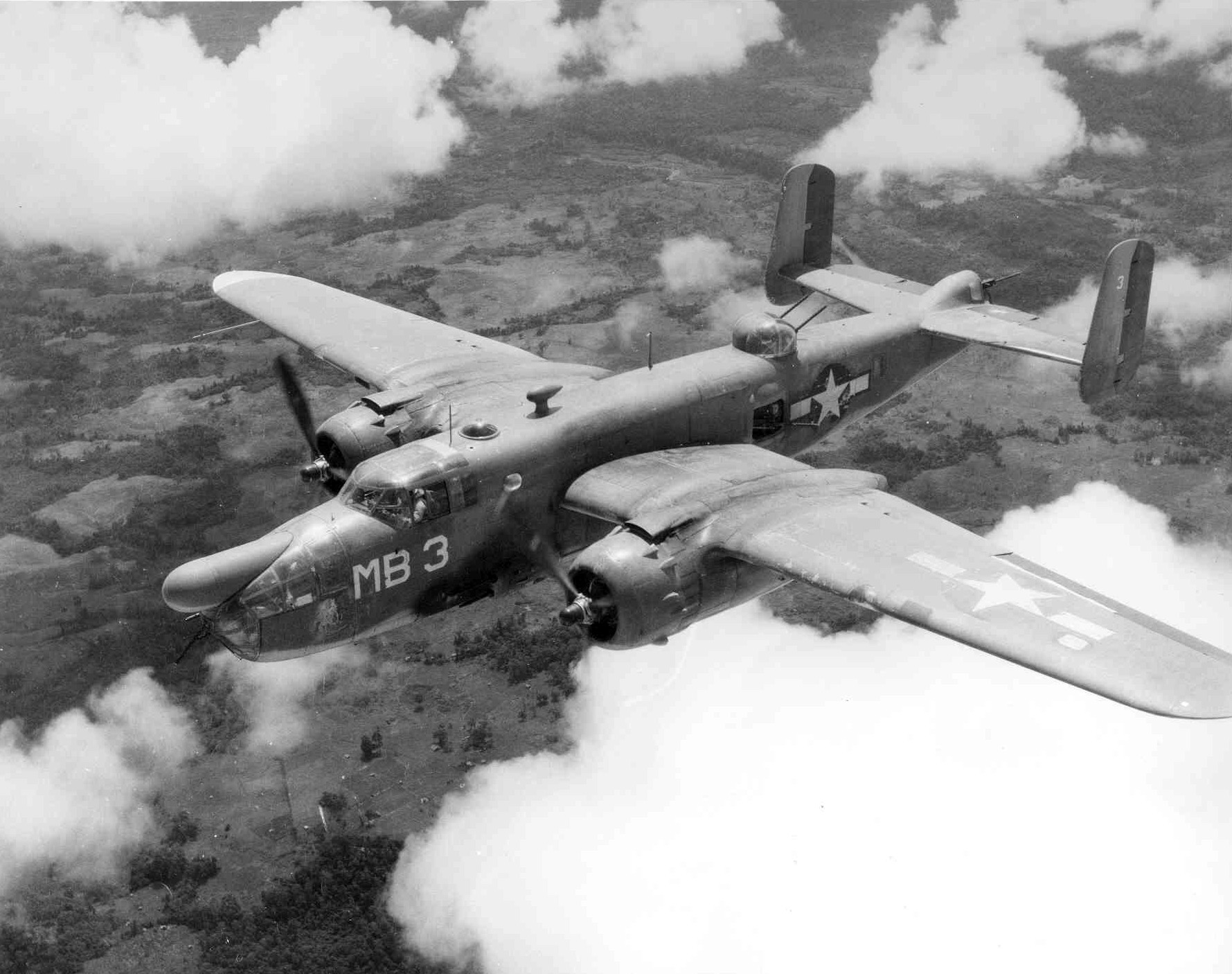 A North American PBJ-1D Mitchell of U.S. Marine Corps bombing squadron VMB-611 in flight. Established at Marine Corps Air Station Cherry Point, North Carolina (USA), in November 1943, VMB-611 trained on the U.S. East and West Coasts before aircraft and personnel boarded ships for transport to the Pacific theater. During 1945, the squadron operated from Emerau Island and Moret Field at Zamboanga, Mindanao, Philippine Islands, flying PBJ Mitchell medium bombers, one of seven Marine Corps squadrons to operate the type. The squadron was disestablished in November 1945.